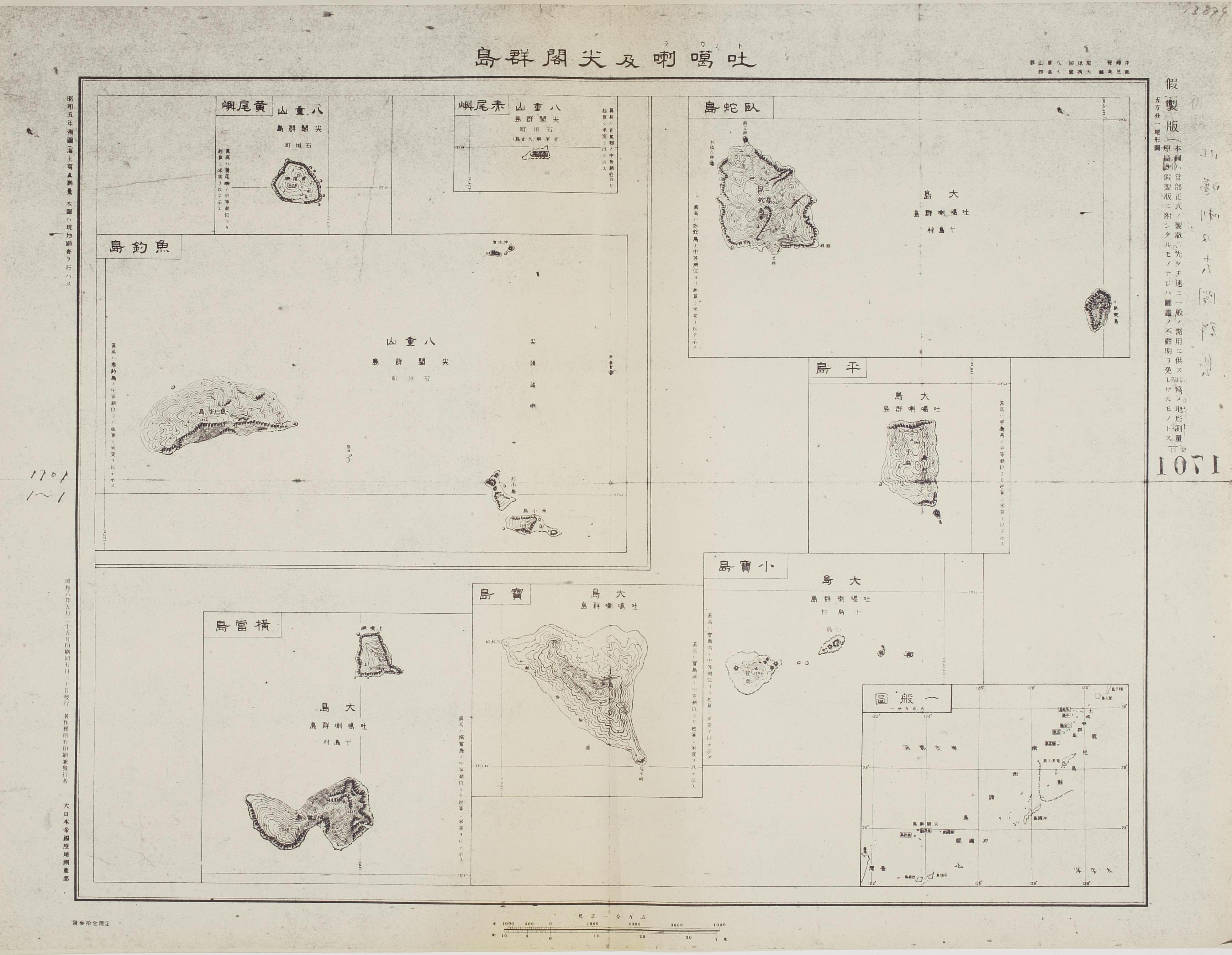 "Map of Tokara Islands and Senkaku Islands", issued in Japan, 1933.